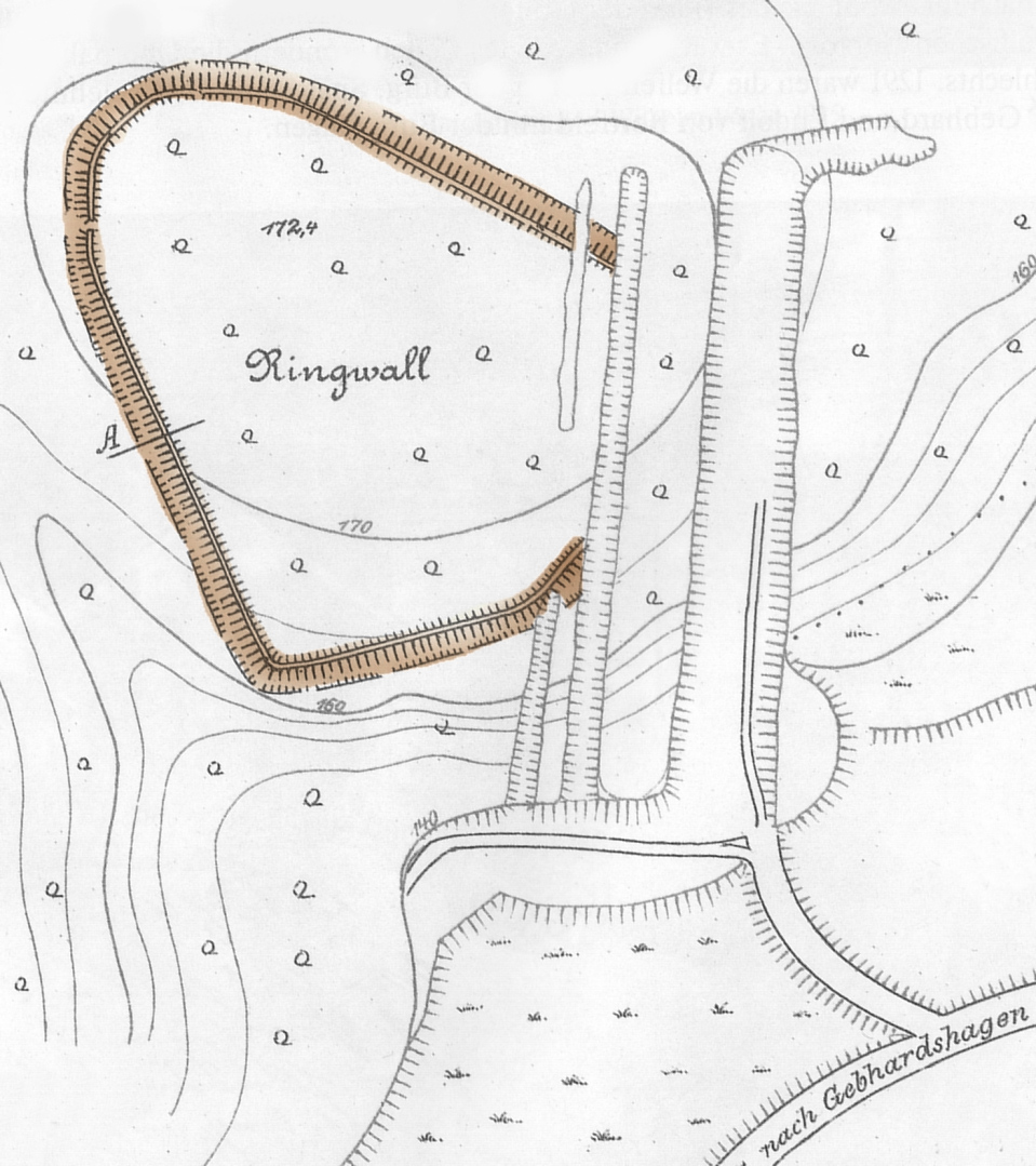 Ringwall Gebhardshagen, nachträglich koloriert